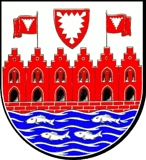 Coat of arms of Heiligenhafen Blasonierung: In Silber über silbernen und blauen Wellen, in denen vier silberne Fische paarweise übereinander schwimmen, eine durchgehende rote Quadermauer; darauf sechs aneinandergereihte rote Giebelhäuser mit Toren und Uhlenloch, das zweite und fünfte besteckt mit einer roten Fahne, darin ein silbernes Nesselblatt; zwischen den Fahnen ein roter Schild mit silbernem Nesselblatt.